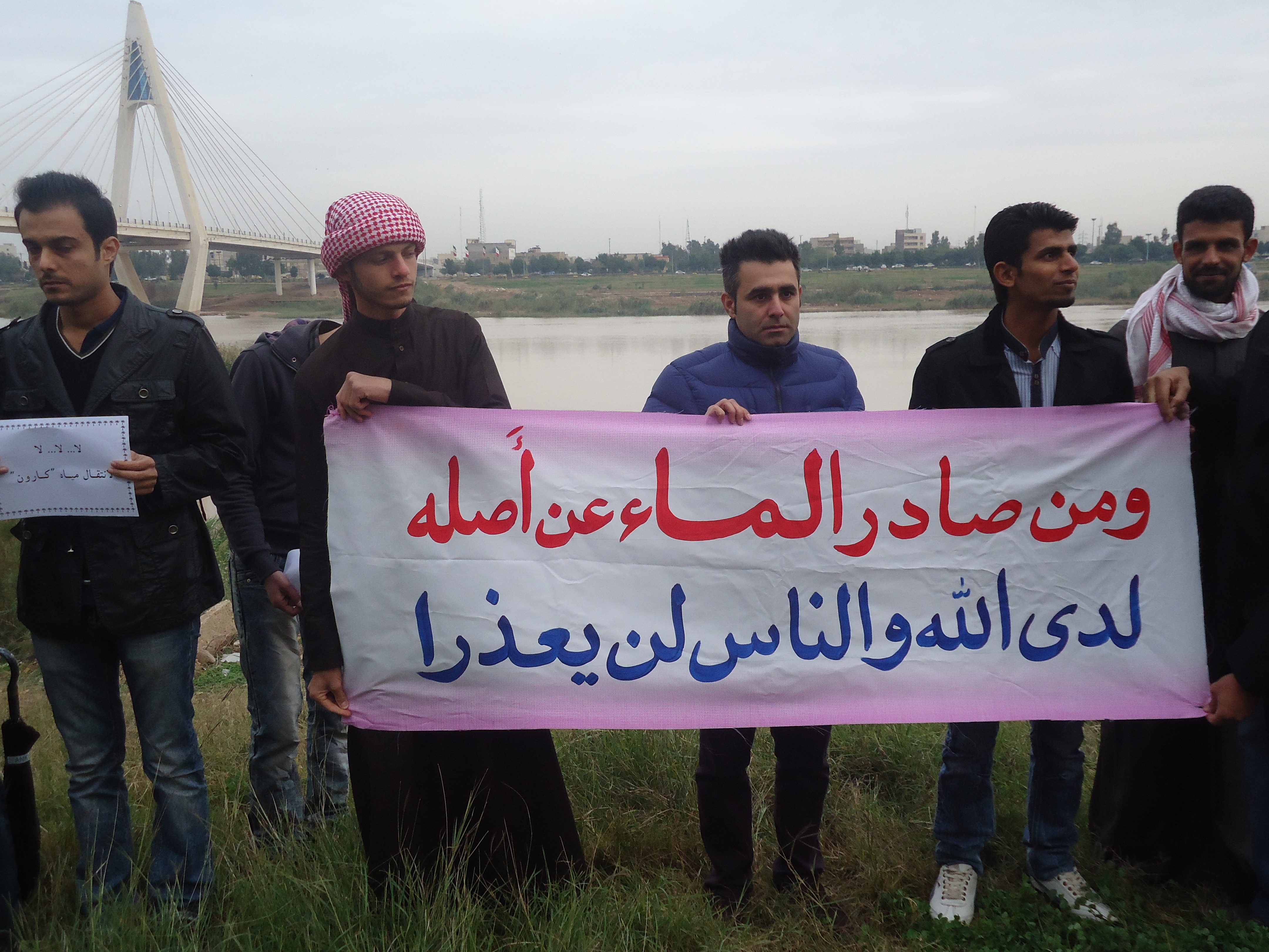 Karoun Supporters